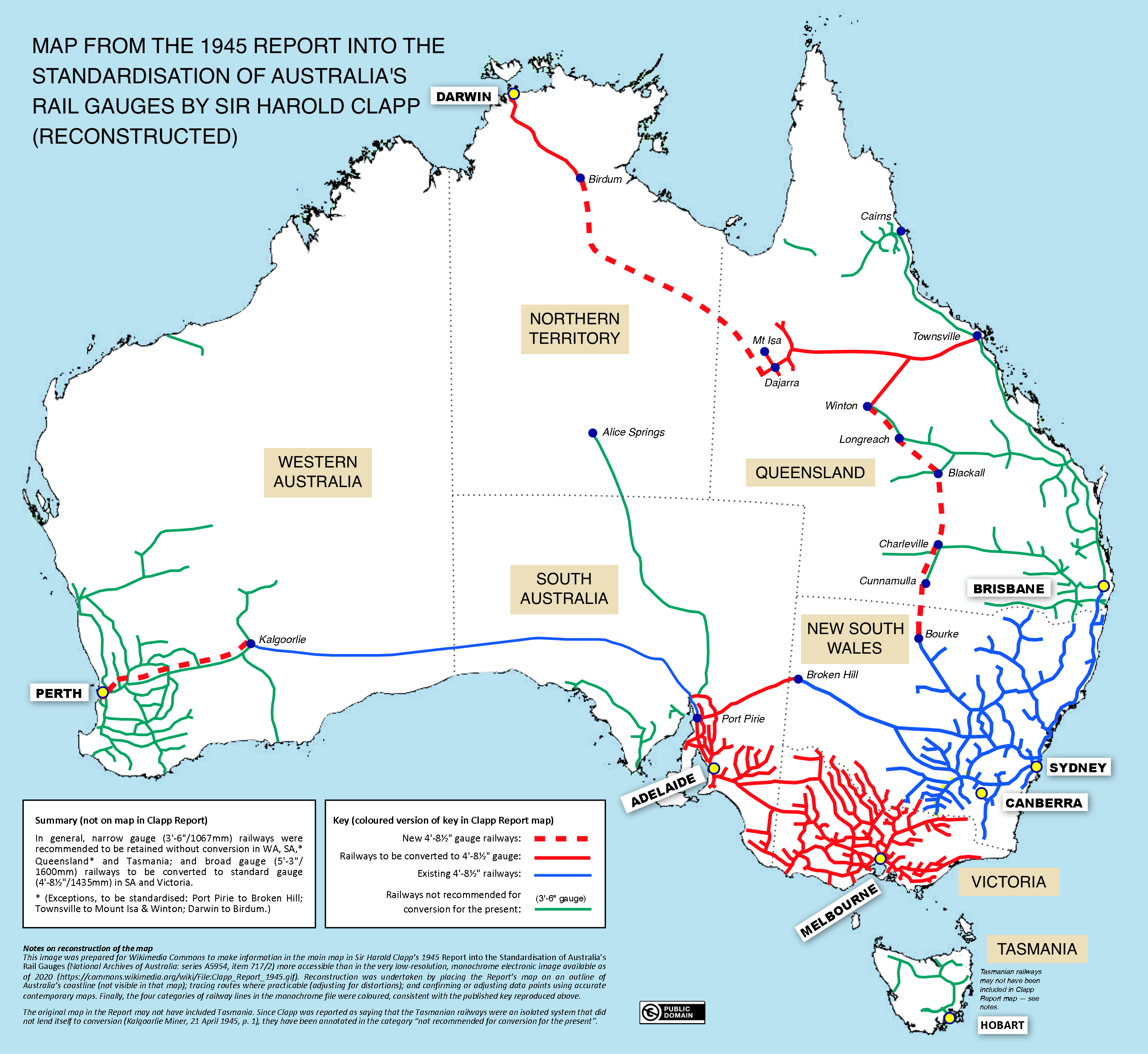 A reconstruction of a very poor copy of a map showing Sir Harold Clapp's proposals for standardisation of Australia's railways in his 1945 report commissioned by the Australian Commonwealth Government.